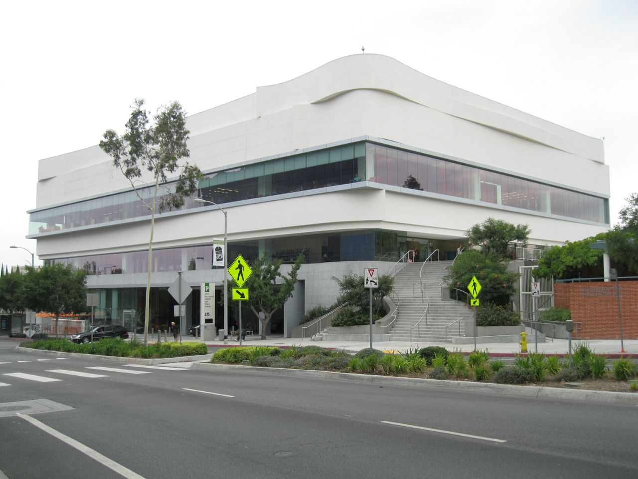 The West Hollywood Library, Los Angeles County Public Library, as viewed looking southwest from across the street in front of the Pacific Design Center.